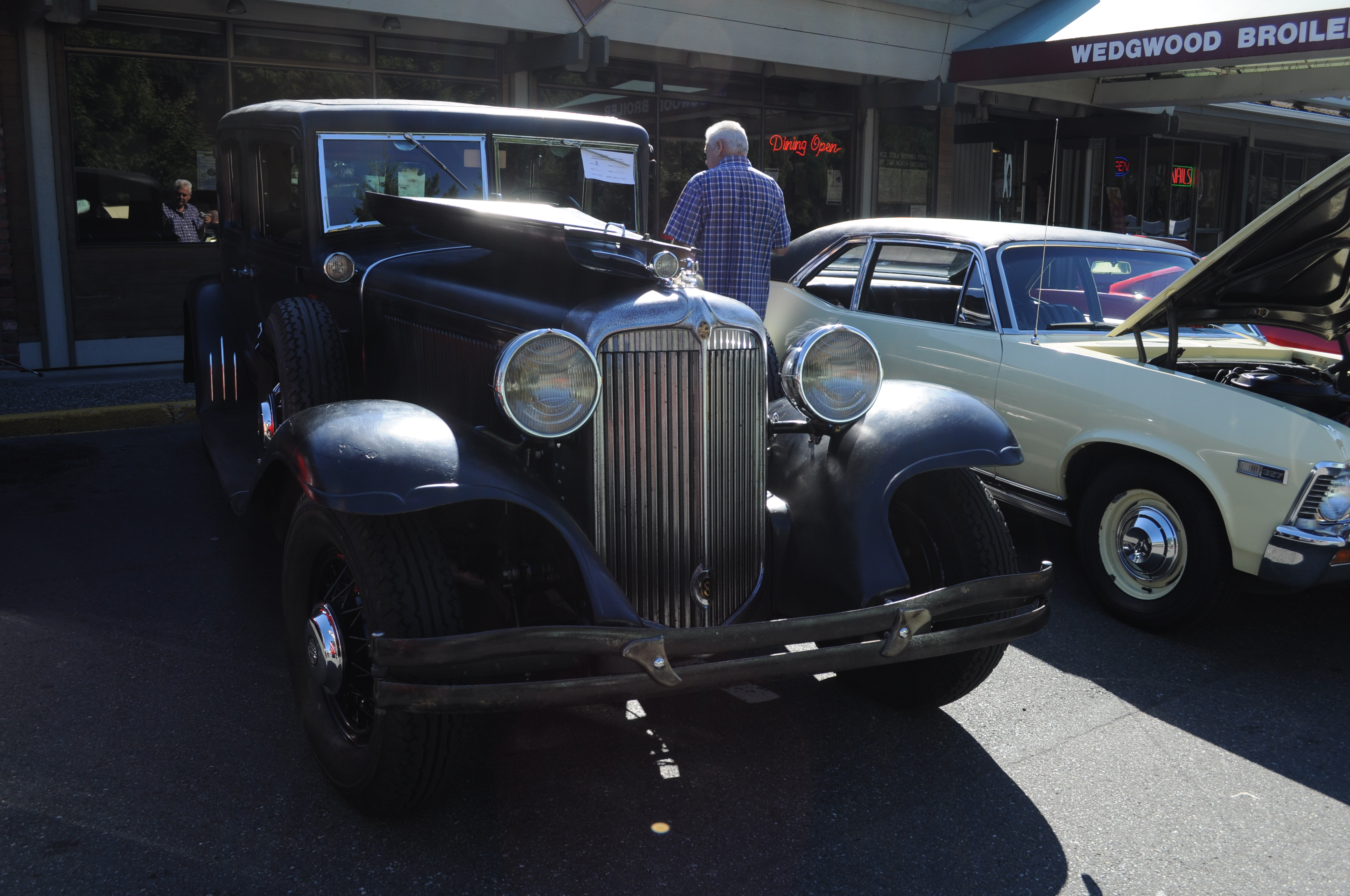 1931 Chrysler Imperial, 4th Annual Chad Shanks Memorial Car Show, Wedgwood Broiler, Wedgwood, Seattle, Washington, USA.